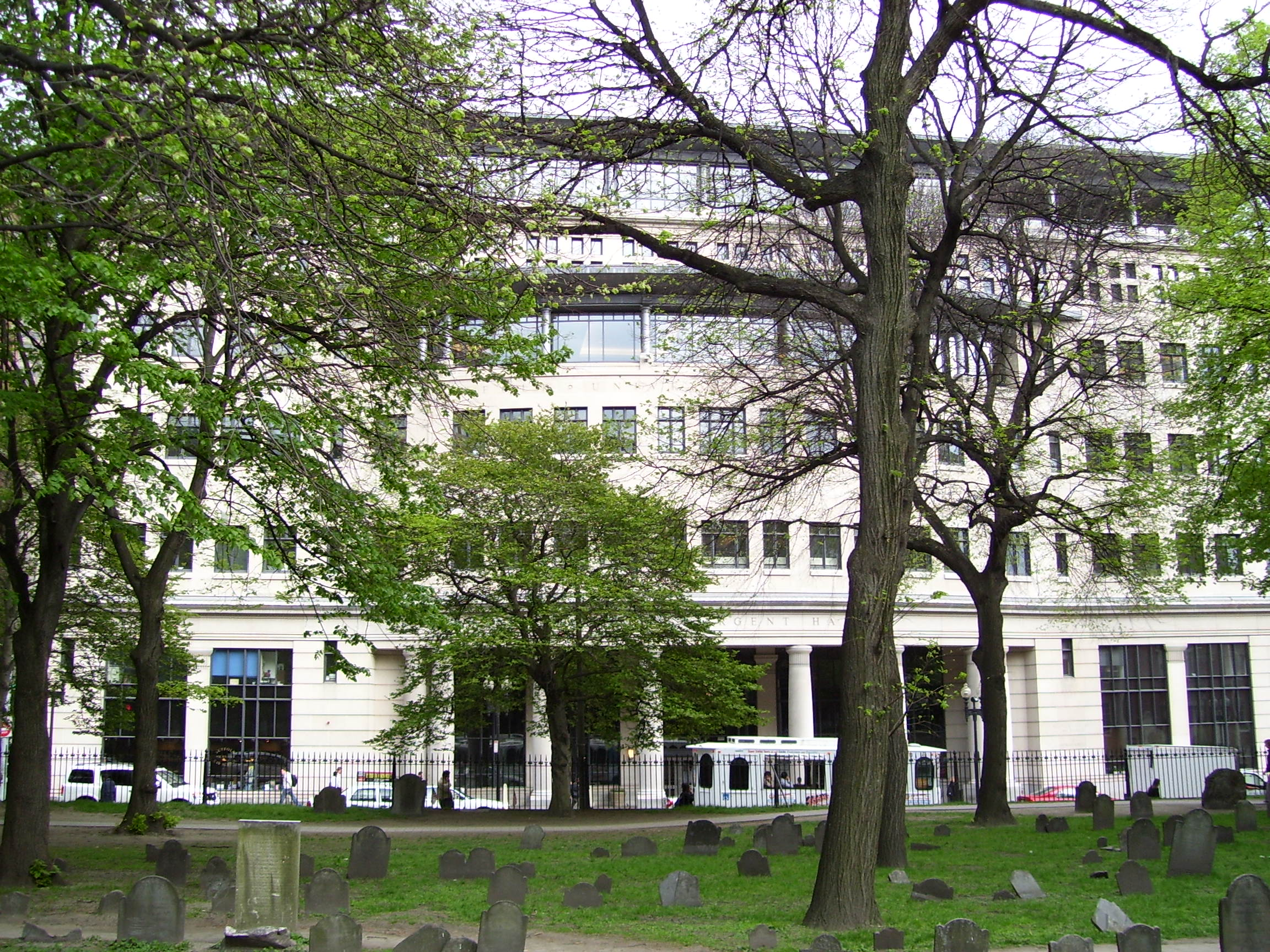 My photograph of the Granary Burying Ground and Suffolk Law School in 2008.